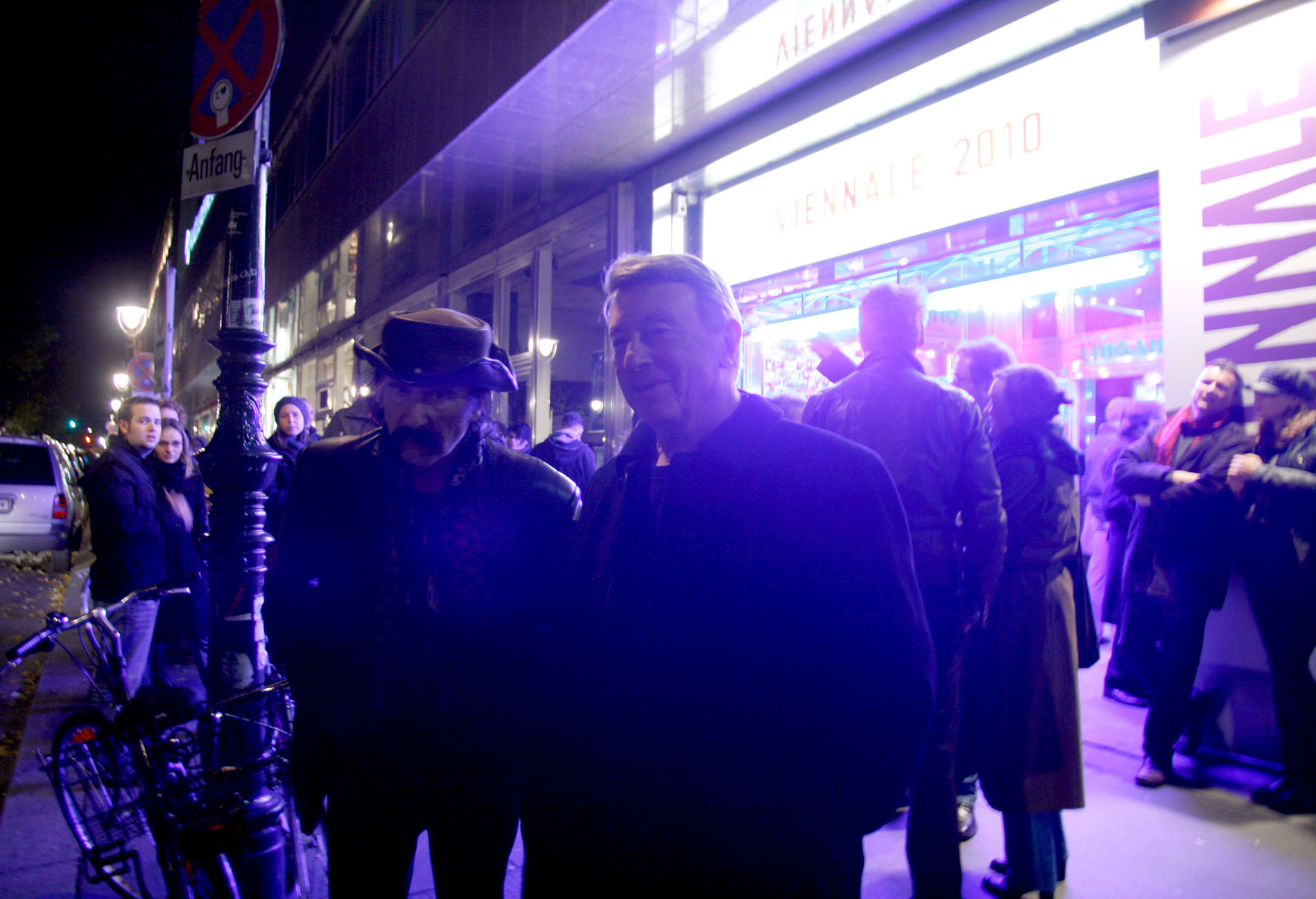 Larry Cohen and Stefan Weber at the Gartenbaukino in Vienna during the Vienna International Film Festival 2010.